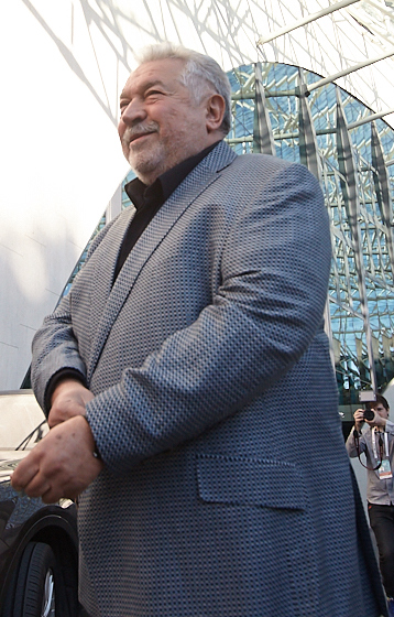 KiViN (2017-07-22)